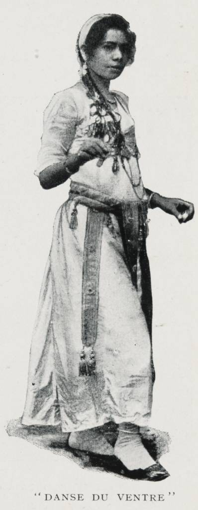 A woman in Egyptian dress dancing.